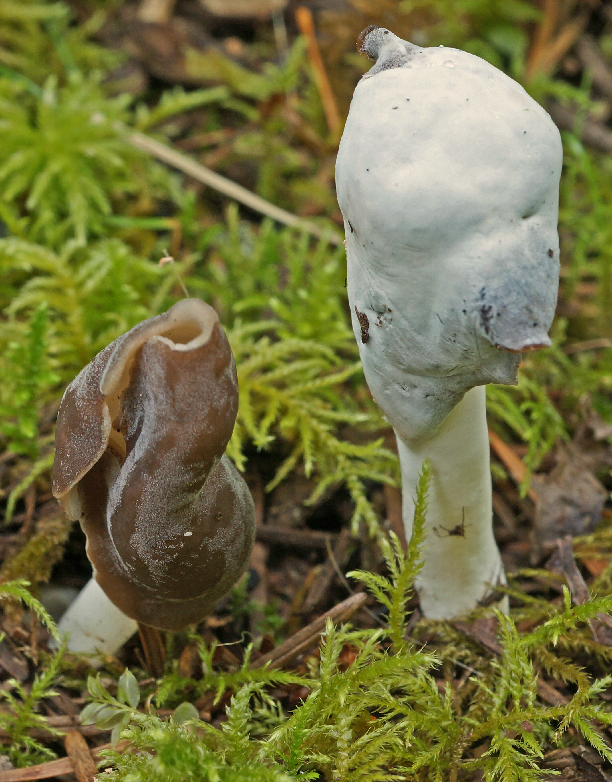 Two fruit bodies of the mushroom Helvella; the one on the right is infected by Hypomyces cervinigenus. Specimens photographed in Browns Camp, Tillamook State Forest, Tillamook Co., Oregon, USA.